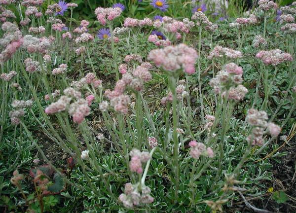 Antennaria diocia in its natural habitat (East-Pyrenees) with Aster alpinus.